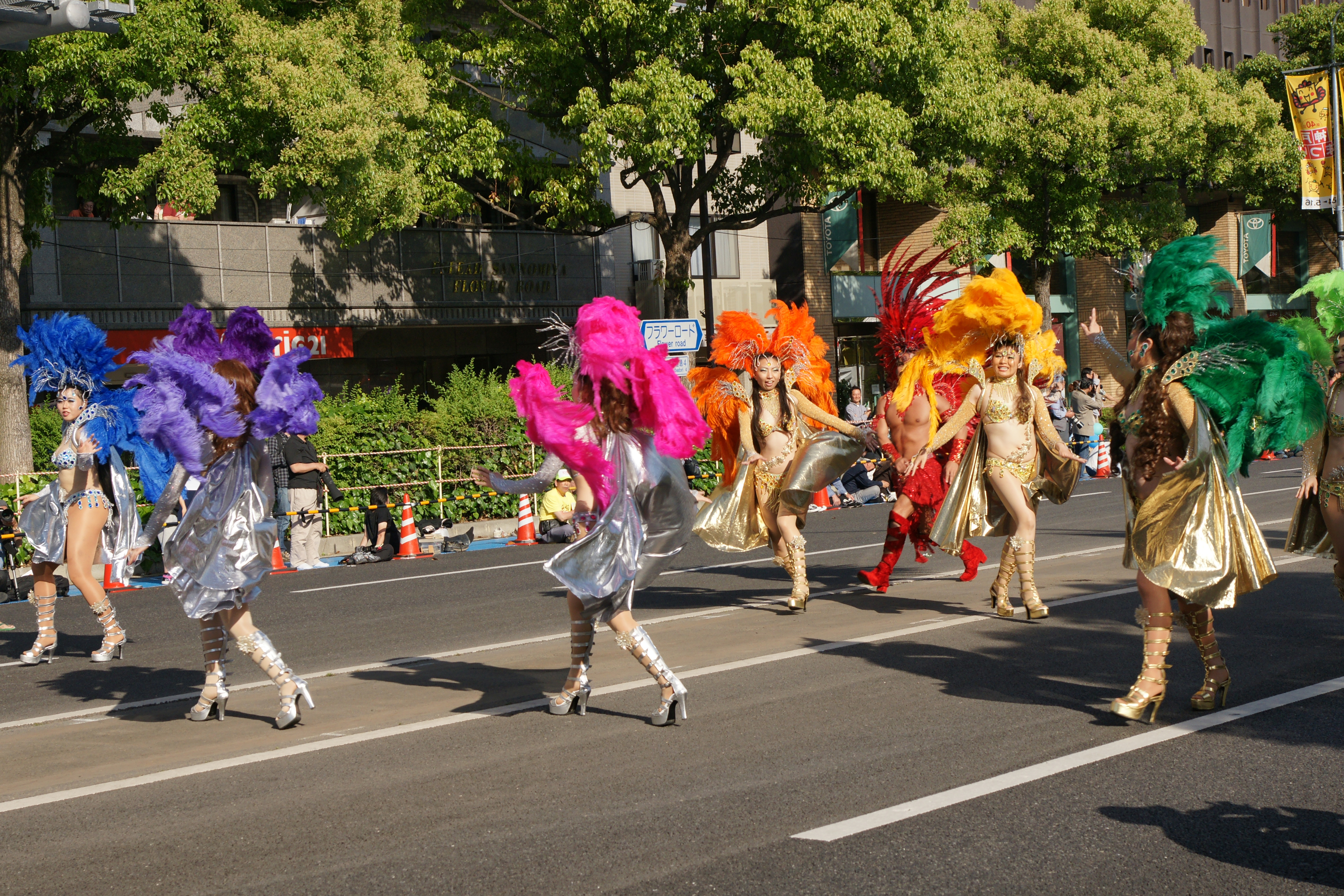 Kobe Matsuri at Kobe, Hyogo prefecture, Japan